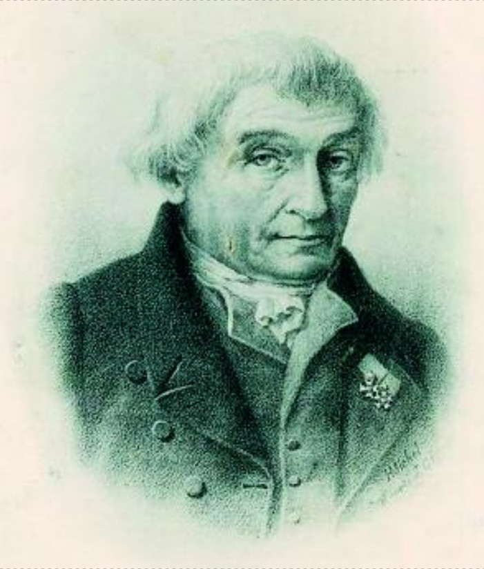 Portrait of French naturalist J. Girod de Chantrans by Jean Gigoux, 1827